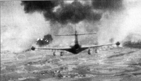 A Grumman F9F-5 Panther of the Argentine Navy attacks Argentine Army's 8th Tank Regiment. During the Argentine Navy Revolt in 1963, the 8th Tank Regiment was mobilized to seize the naval base at Punta Indio. Under the orders of base commander Captain Santiago Sabarots, Argentine Navy F9F Panthers, AT-6 Texans and F4U Corsairs bombed the advancing column, destroying a dozen M4 Sherman tanks.